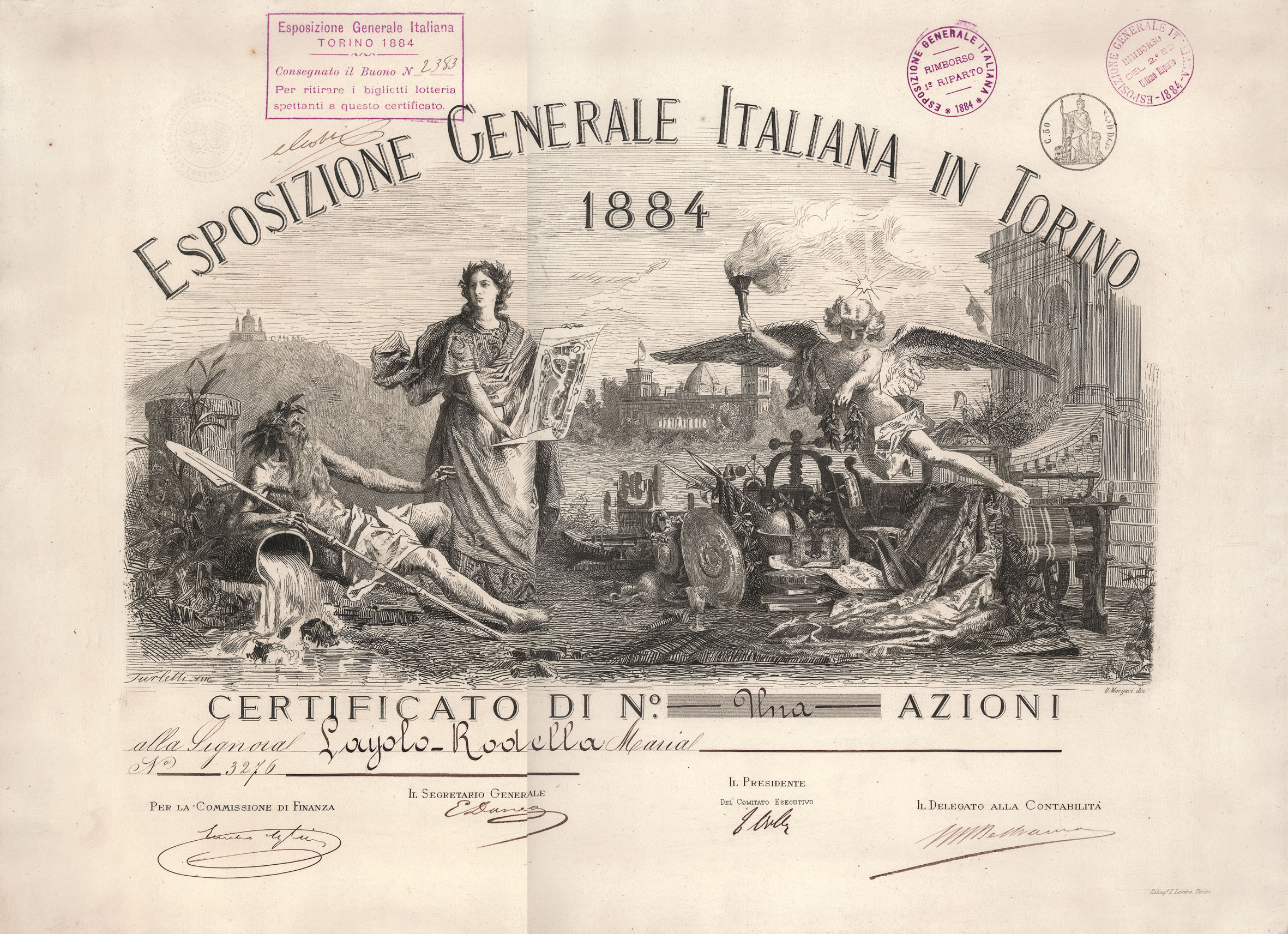 Share of the Esposizione Generale Italiana in Torino, issued 1884